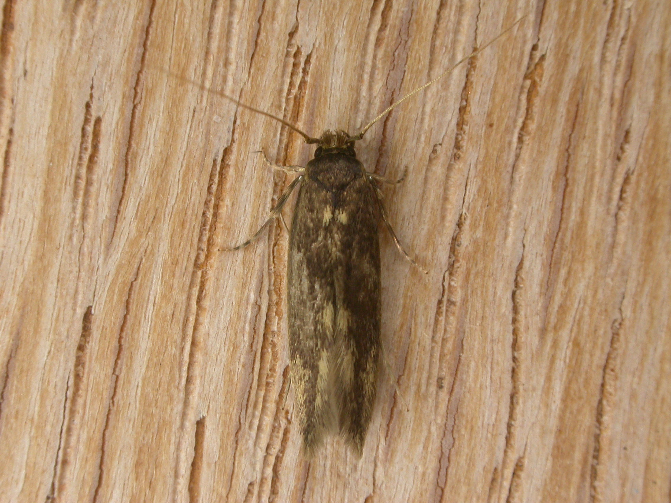 Opogona omoscopa (Meyrick, 1893), Aranda, ACT, 5 February 2011